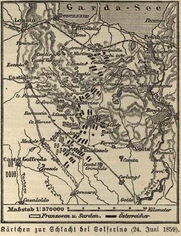 map of the 1859 Battle of Solferino